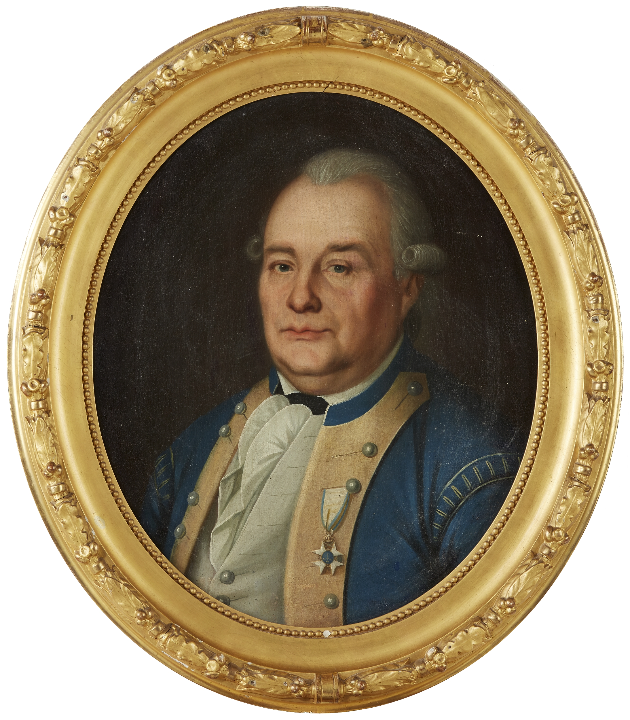 Carl Fredrik Ekestubbe till Olkkala (1727-1784), avporträtterad i uniform m/1779 för Nylands dragonregemente. På bröstet syns riddartecknet för Svärdsorden. Målning av Emanuel Thelning (1767-1831) och från 1780-talet. Registrerade i Svenska porträttarkivet (SPA) 1919:105 och 1919:102 Proveniens: Överstelöjtnant Carl Fredrik Ekestubbe, Olkkala, Vichtis, Nyland, Finland därefter i arv till hans son häradshövdingen lagman Carl Johan Ekestubbe (1763-1821), Lampola, Halikko socken, Finland därefter i arv till hans son underlöjtnant Reinhold Ferdinand Ekestubbe (1807-1880) därefter i arv till hans son överstelöjtnant Mauritz Ekestubbe (1848-1876), Jupper gård, Esbo, Finland därefter i arv till hans dotter Julia Ekestubbe (1875-1957), g.m. kammarherre greve Christer Bonde af Björnö (1869-1956), Hässelby, Uppland därefter genom arv till nuvarande ägare.